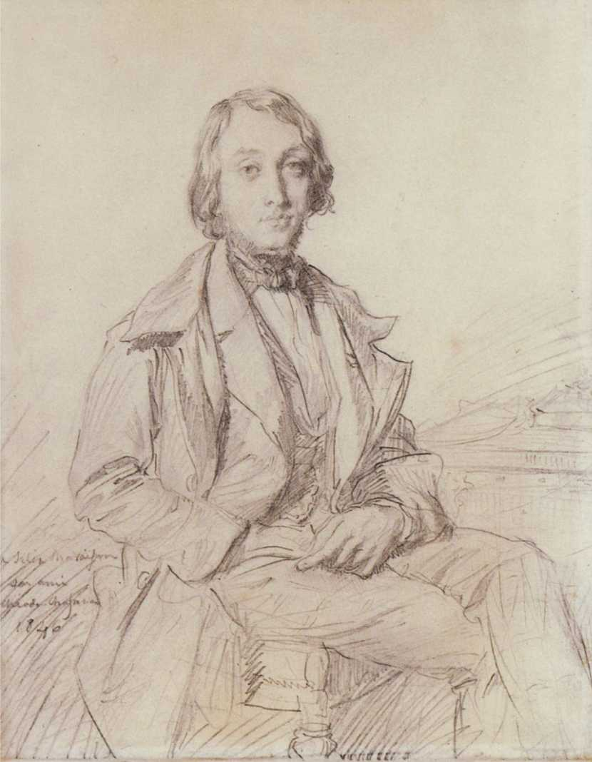 Portrait of Jean-Gaspard-Félix Larcher Ravaisson-Mollien